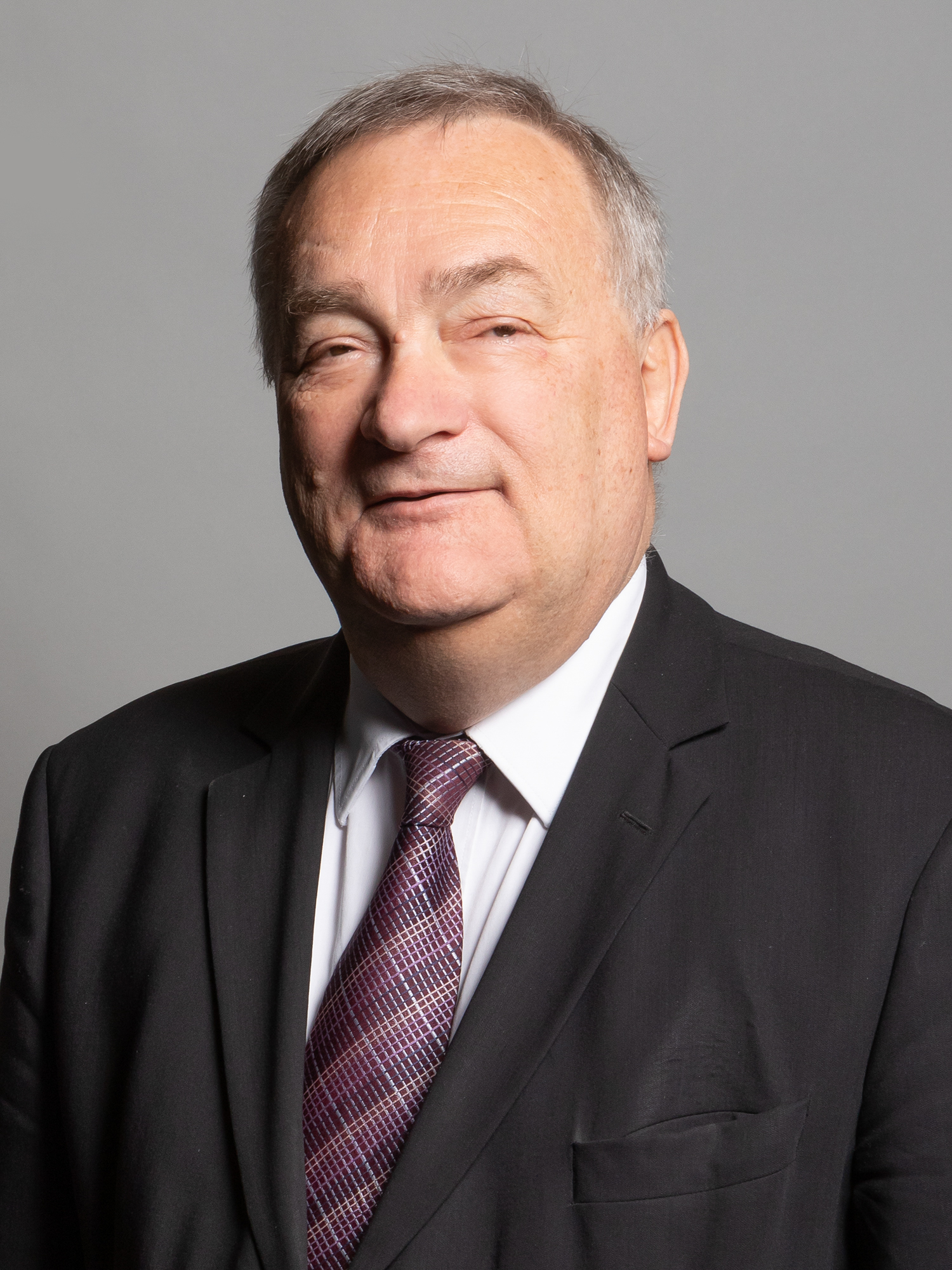 Official portrait of Rt Hon Nicholas Brown MP 3×4 portrait of Mr Nicholas Brown